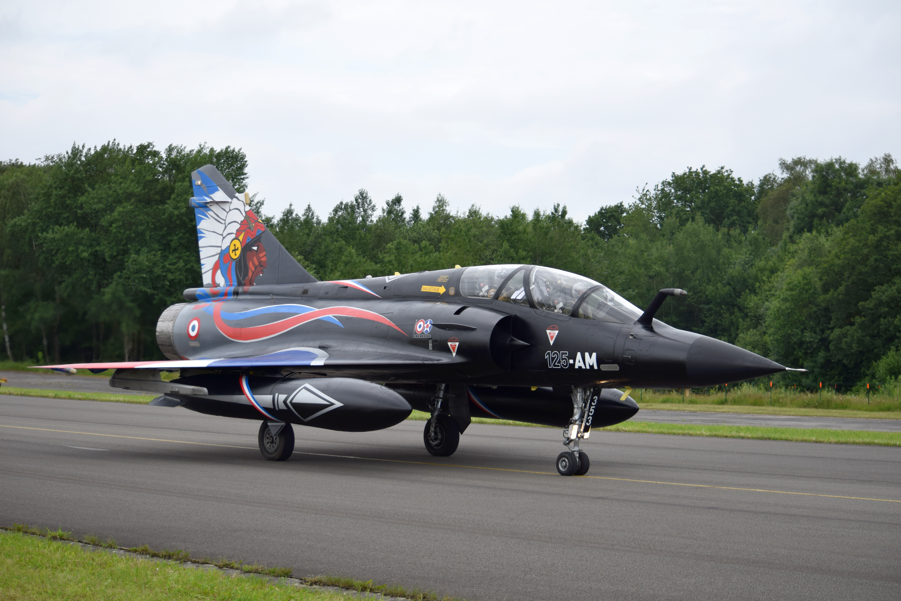 Mirage in special camouflage from Ramex Delta, participating in the 2016 Belgian Air Force Days at Florennes Air Base